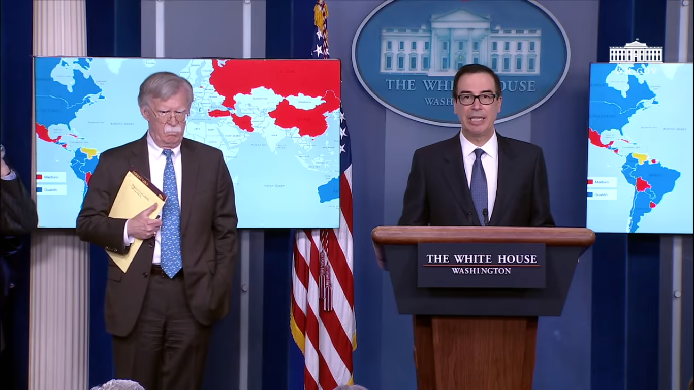 Washington – Today the Department of the Treasury’s Office of Foreign Assets Control (OFAC) designated Petróleos de Venezuela, S.A. (PdVSA) pursuant to Executive Order (E.O.) 13850 for operating in the oil sector of the Venezuelan economy. PdVSA is a Venezuelan state-owned oil company and a primary source of Venezuela’s income and foreign currency, to include U.S. dollars and Euros.